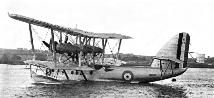 Short S.8/8 Rangoon (S1433), Rochester, March 1931